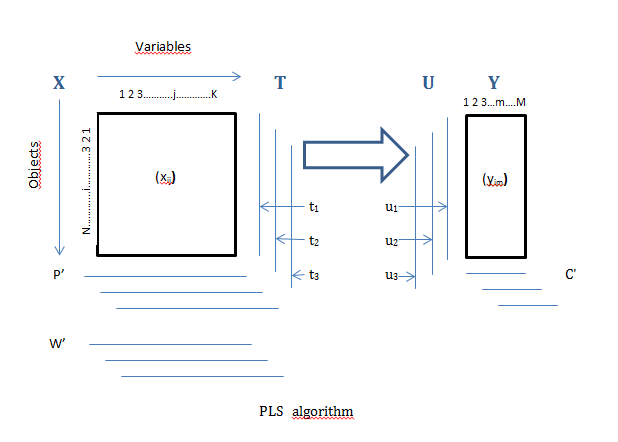 PLS Regression : the general algorithm steps after a Svante Wold, Michael Sjöström, and Lennart Eriksson 's paper